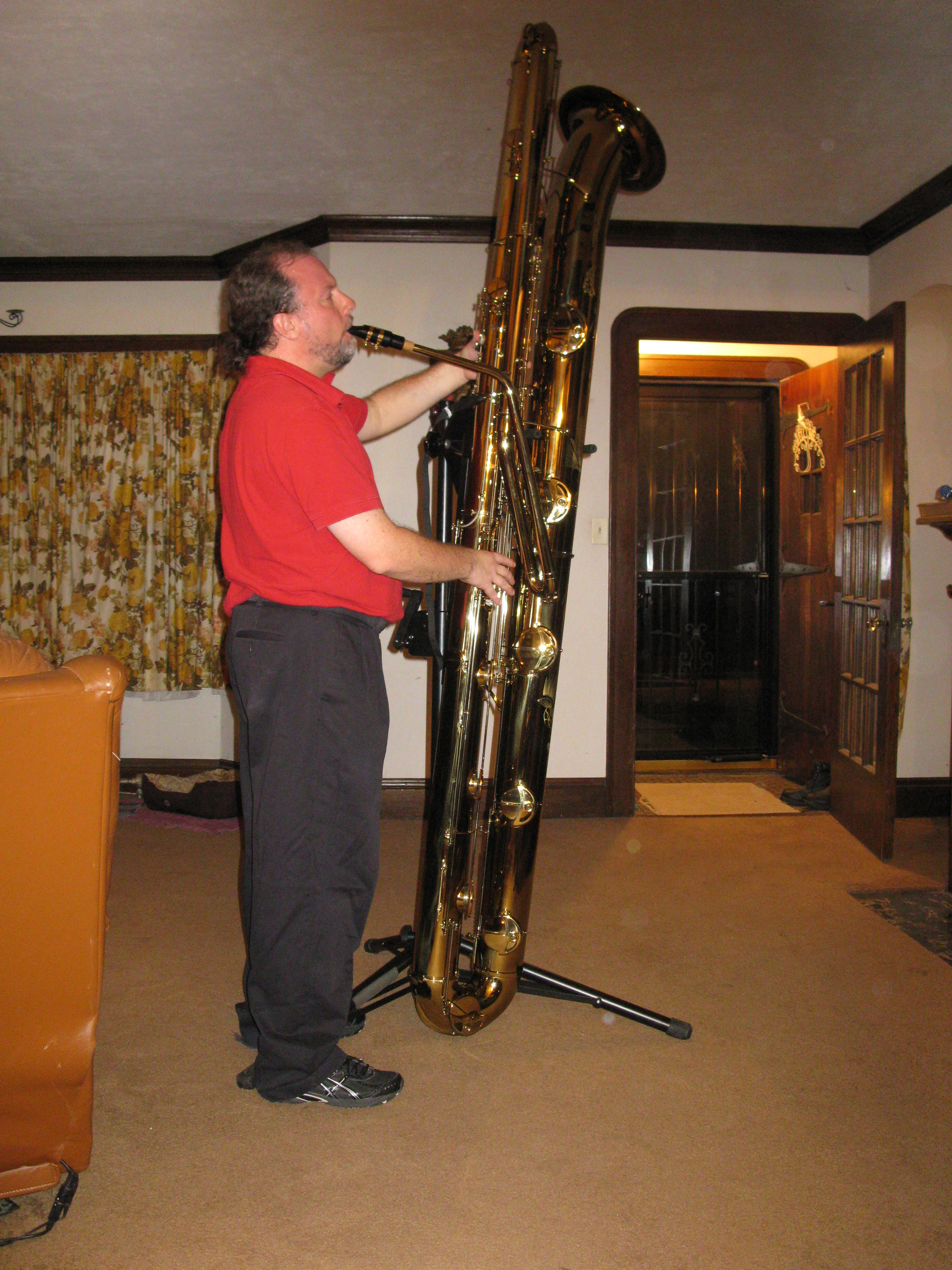 Todd "Big Horn" White playing his full-size Subcontrabass Saxophone.